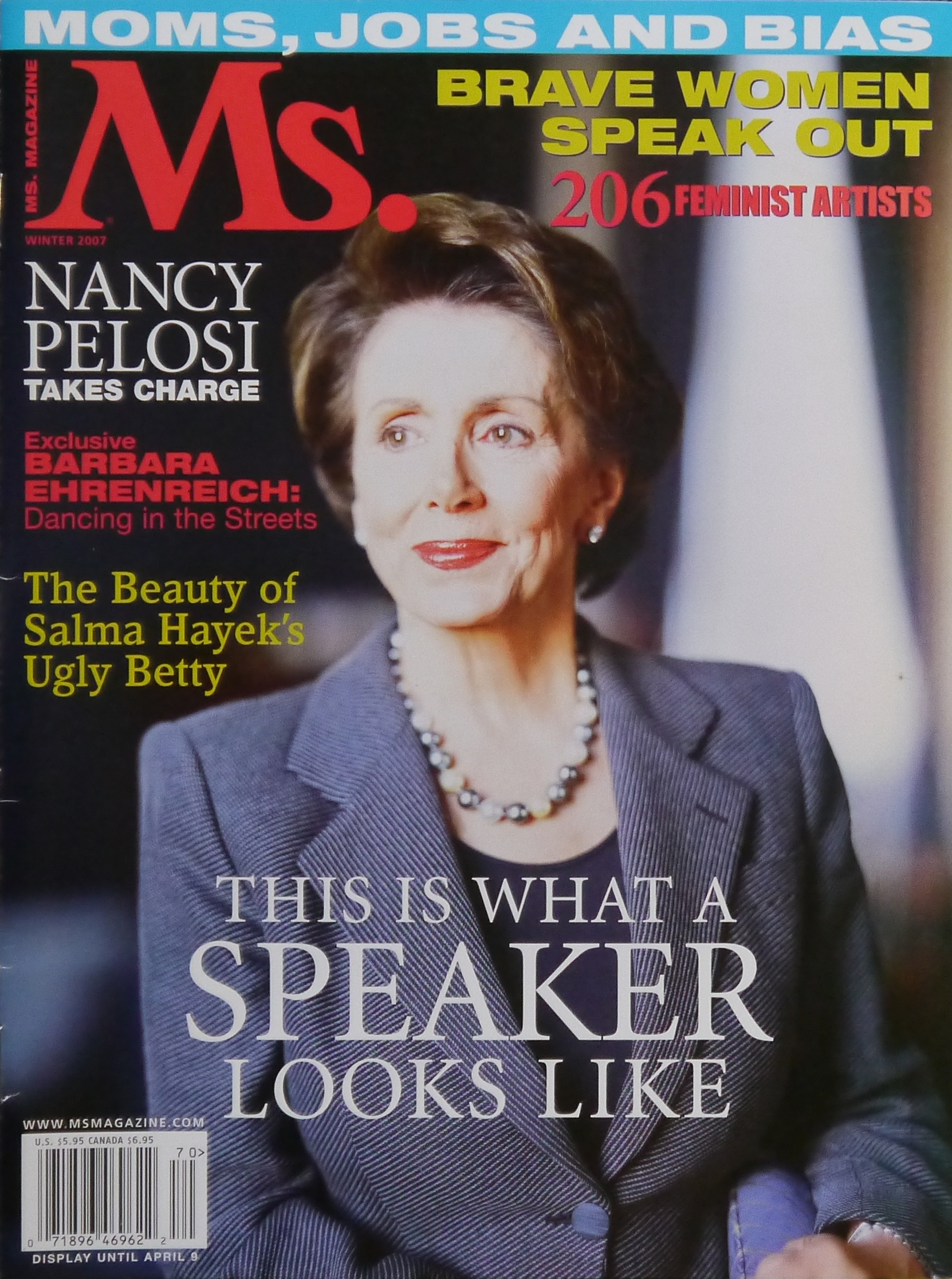 Ms. magazine, Winter 2007 featuring Nancy Pelosi